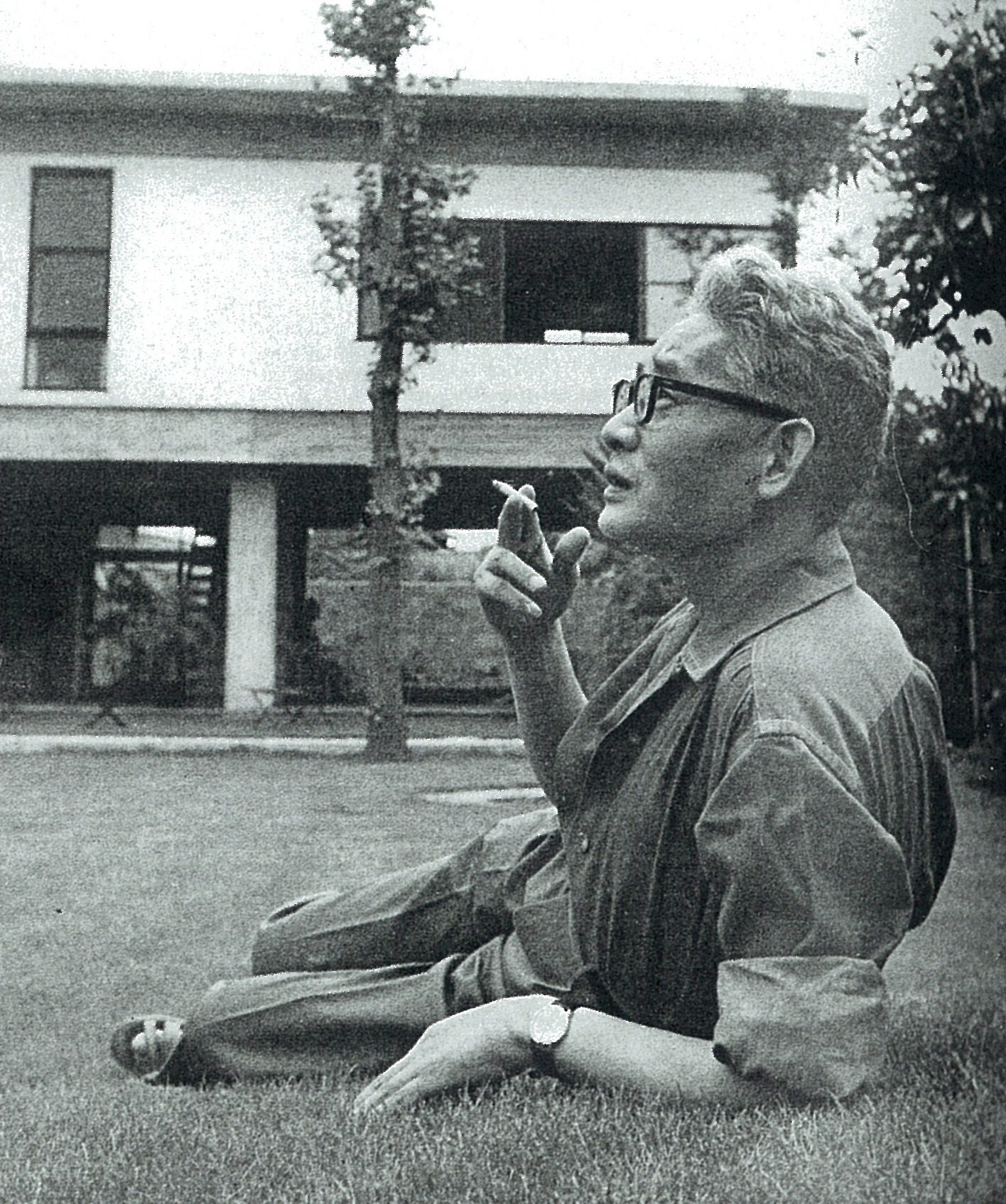 Yoshitatsu Yanagihara